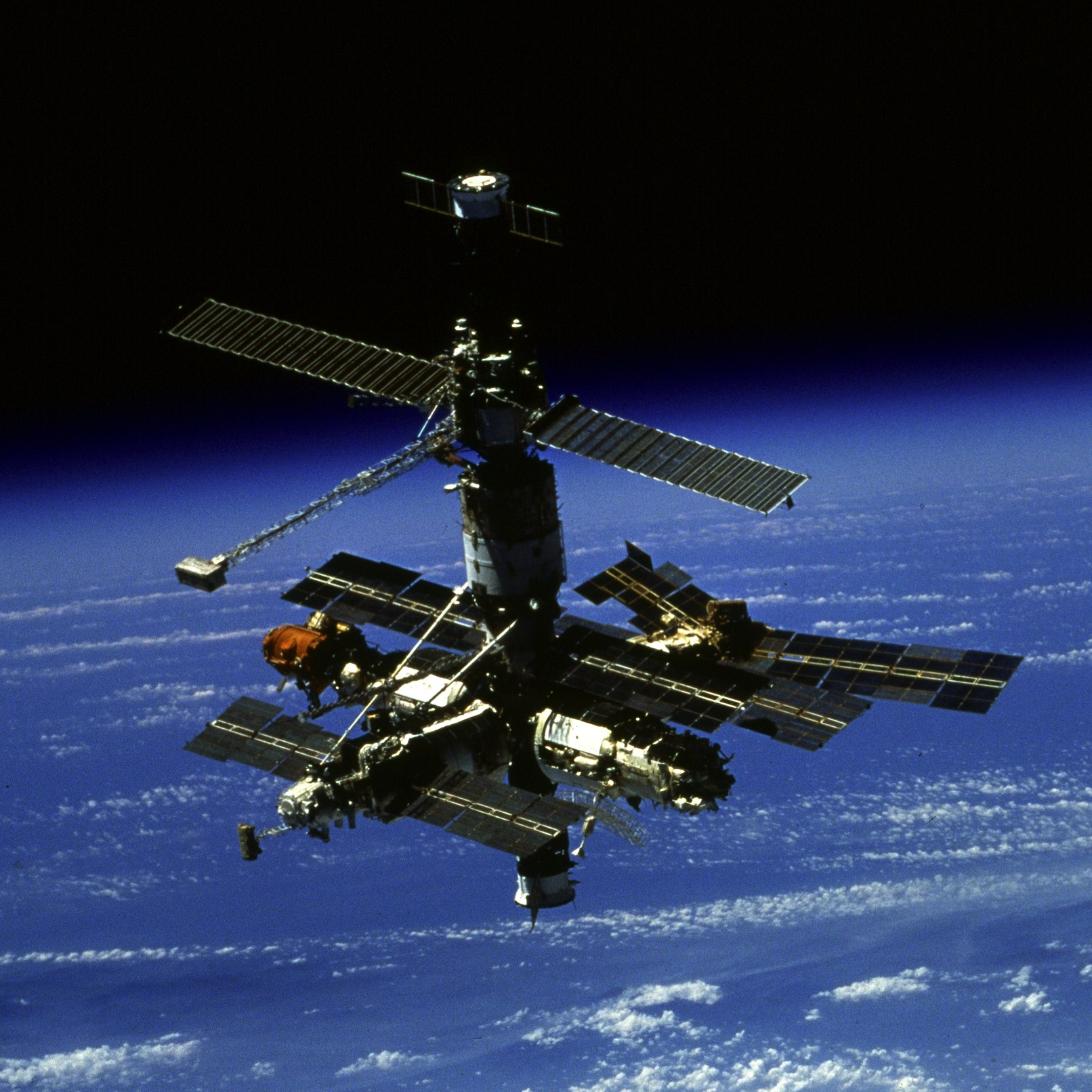 A view of the newly-completed Soviet/Russian space station Mir, shown over the limb of the Earth, as seen from the Space Shuttle Atlantis following undocking during STS-79.